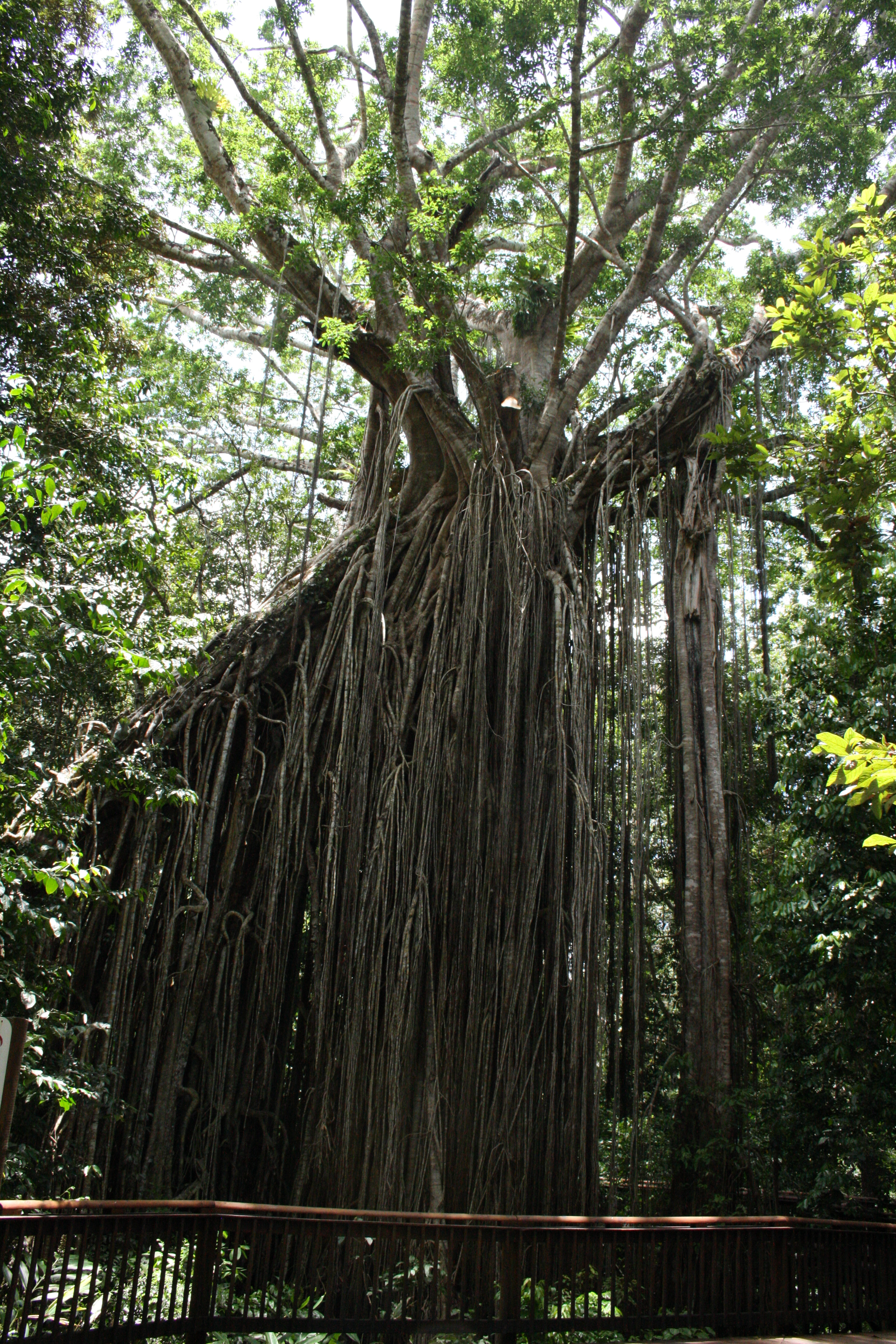 Curtain Fig tree located in the Atherton Tablelands, Nov 11